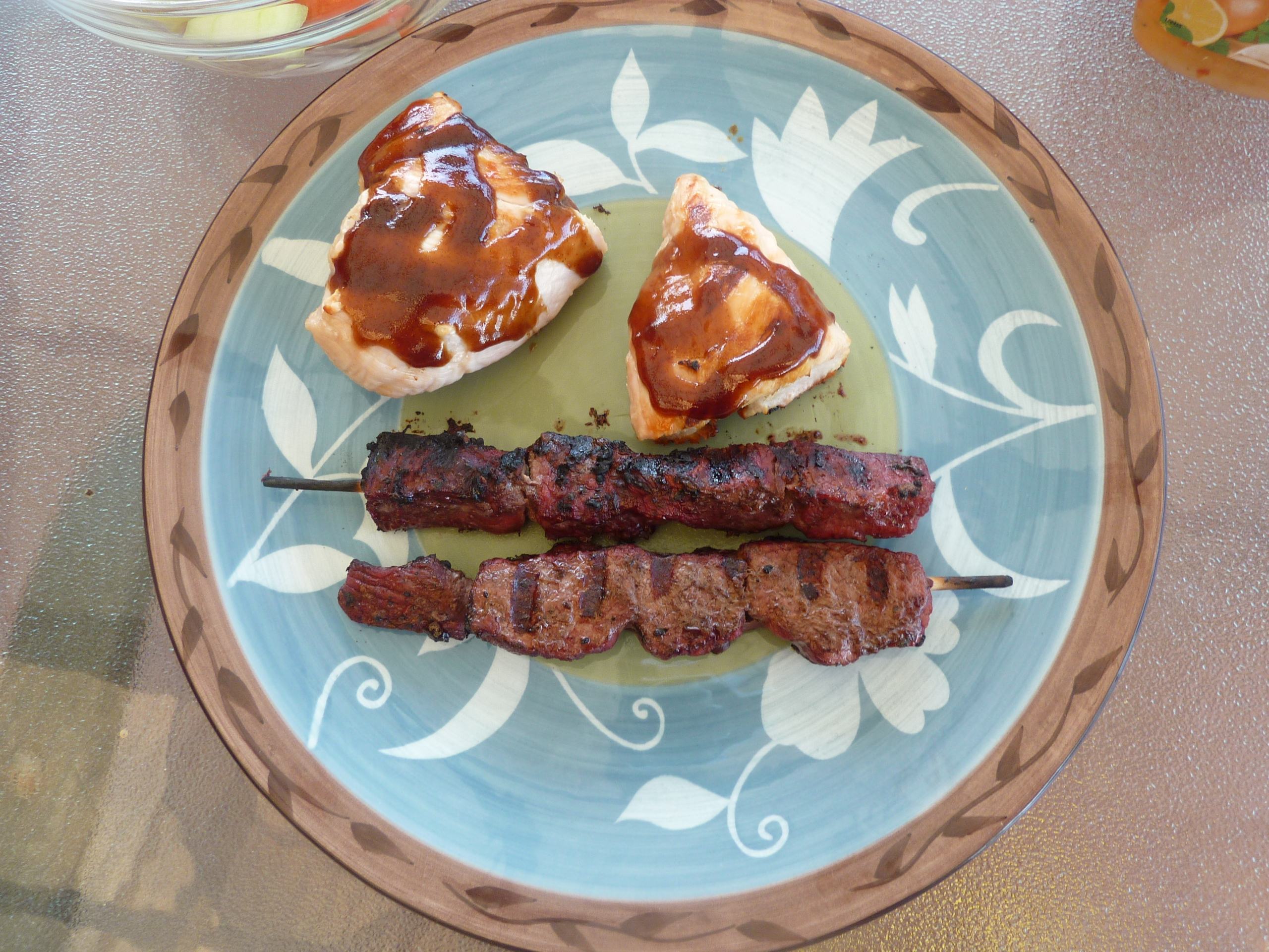 Kangaroo Kebabs, served with chicken.